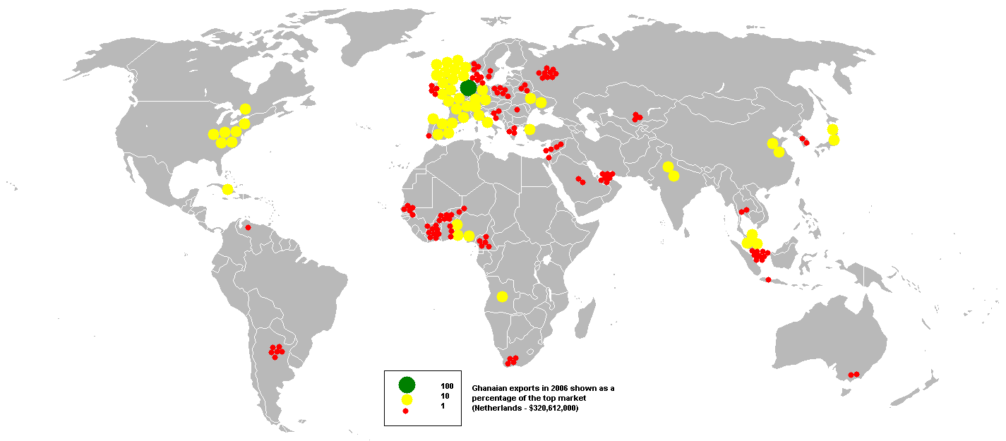 This bubble map shows the global distribution of Ghanaian exports in 2006 as a percentage of the top market (Netherlands - $320,612,000). This map is consistent with incomplete set of data too as long as the top producer is known. It resolves the accessibility issues faced by colour-coded maps that may not be properly rendered in old computer screens. Data was extracted on 26th September 2007 from Based on :Image:BlankMap-World.png